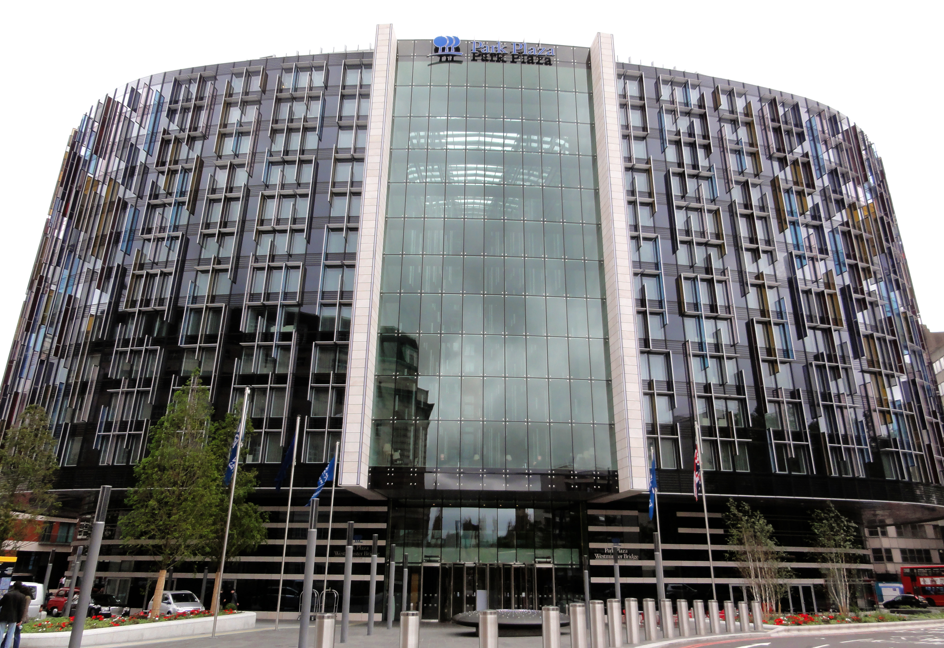 The Park Plaza Hotel, Westminster Bridge, London.